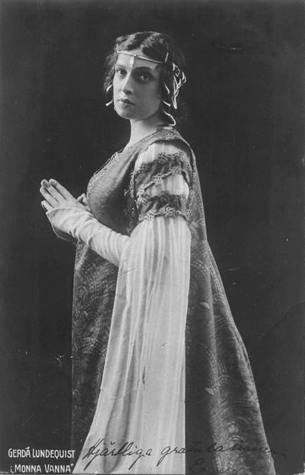 Gerda Lundequist (1871-1959) in the play Monna Vanna by Maeterlinck